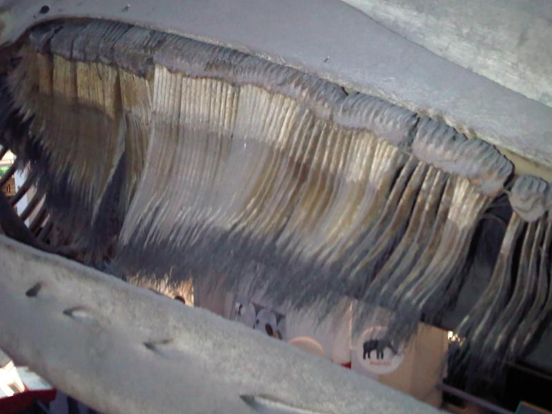 The gray whale's (Eschrichtius robustus) baleen or whalebone.